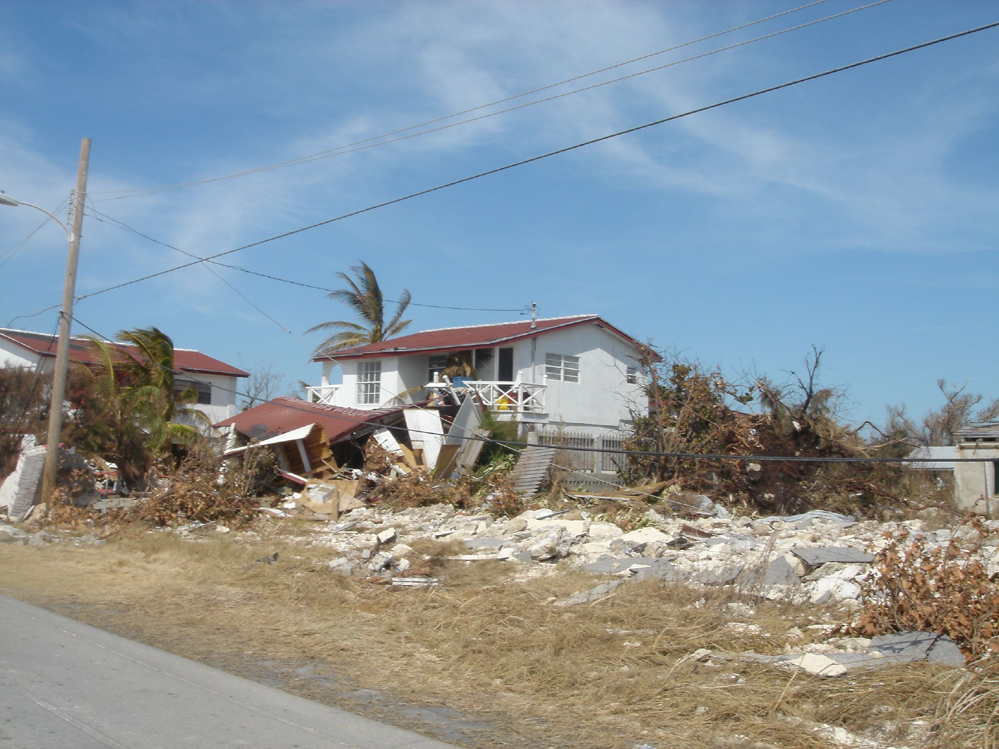 Damaged homes in the Bahamas in the aftermath of Hurricane Wilma in 2005.hurricane wilma devastation